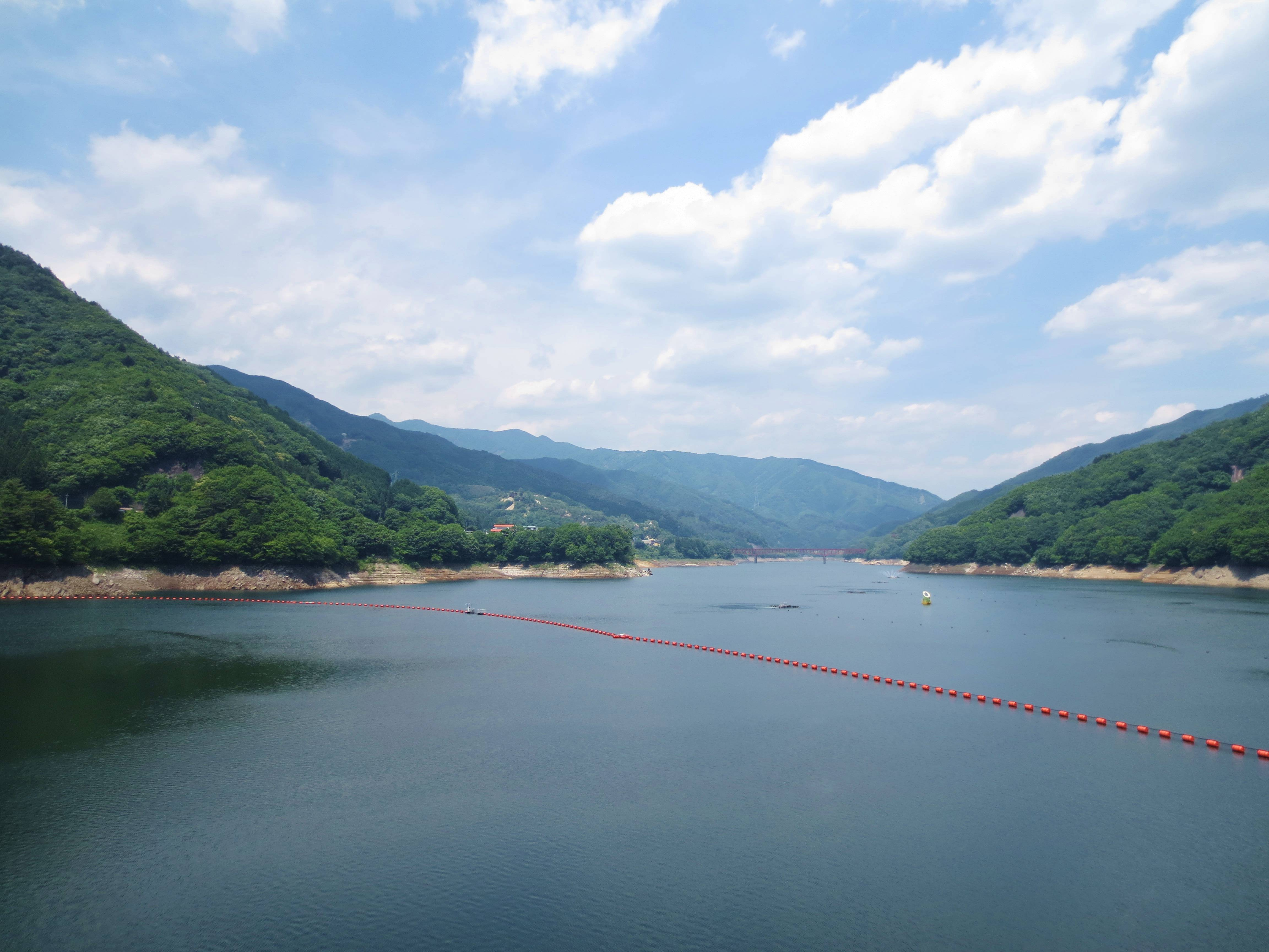 Kusaki Dam lake.